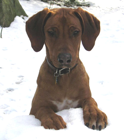 Rhodesian Ridgeback (8 months old).